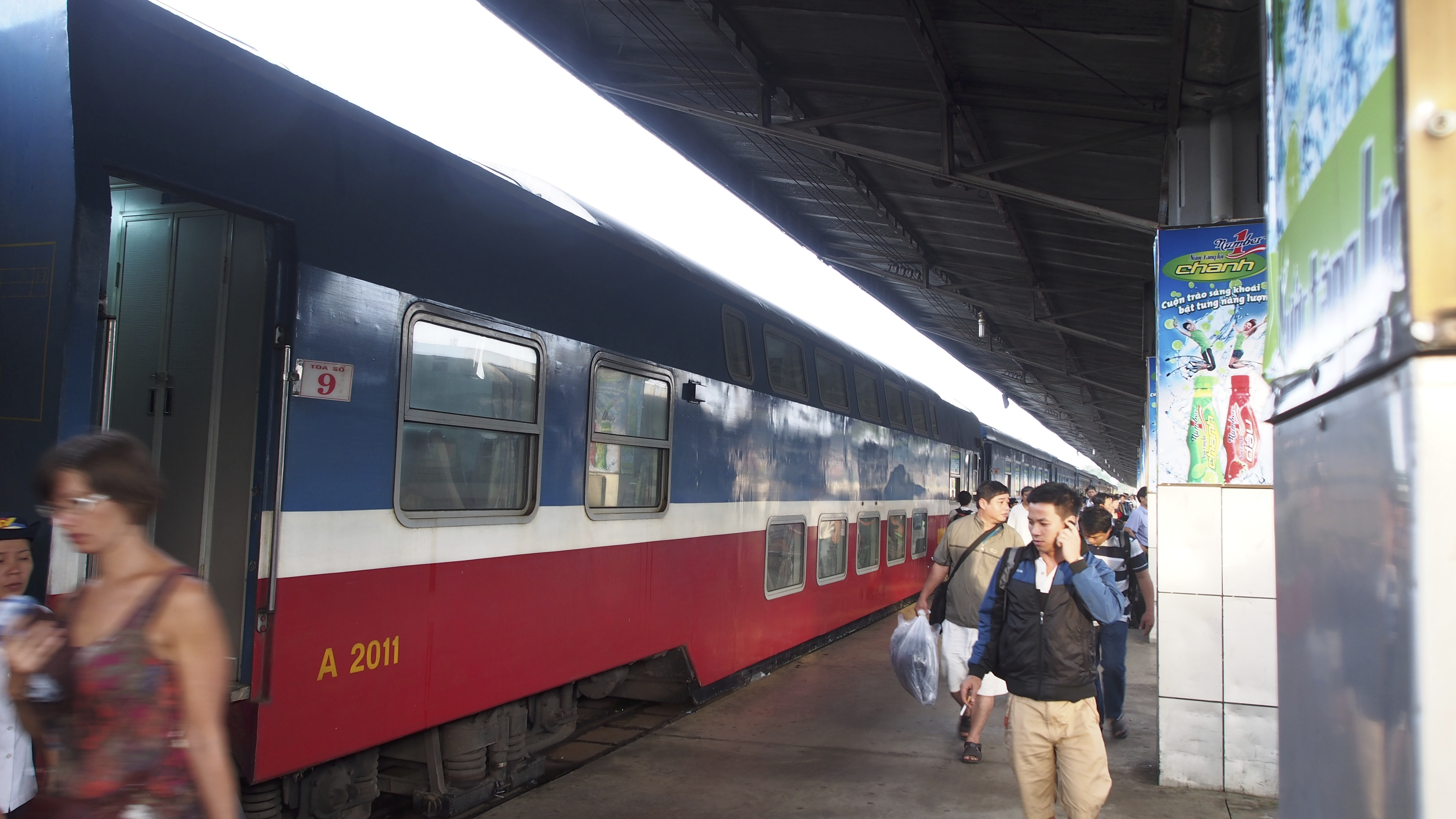 Arrival in Ho Chi Minh City